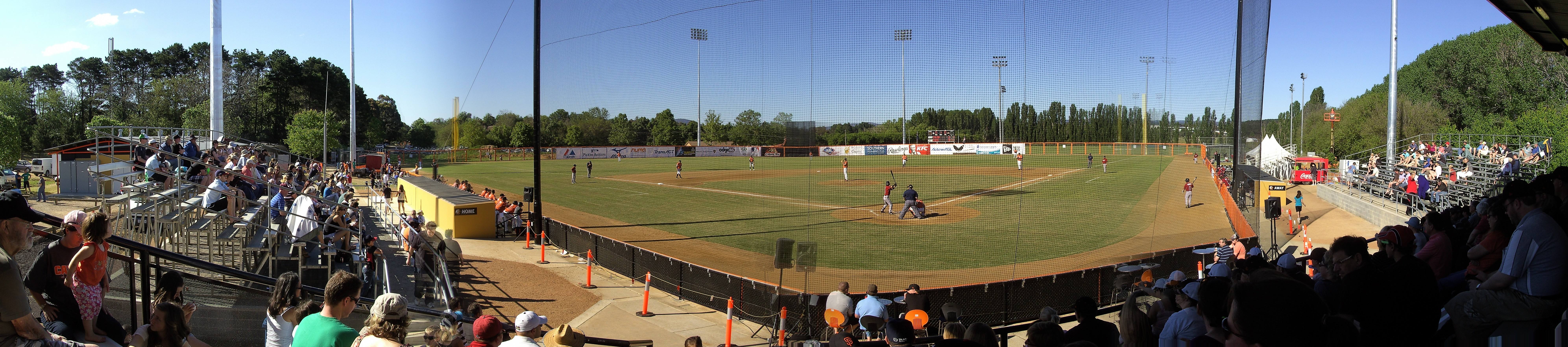 Narrabundah Ballpark, Narrabundah: Game three of the first home series by Canberra Cavalry against Melbourne Aces, Australian Baseball League; Saturday 20 November 2010